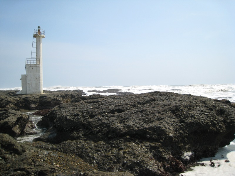 Oarai-Lighthouse